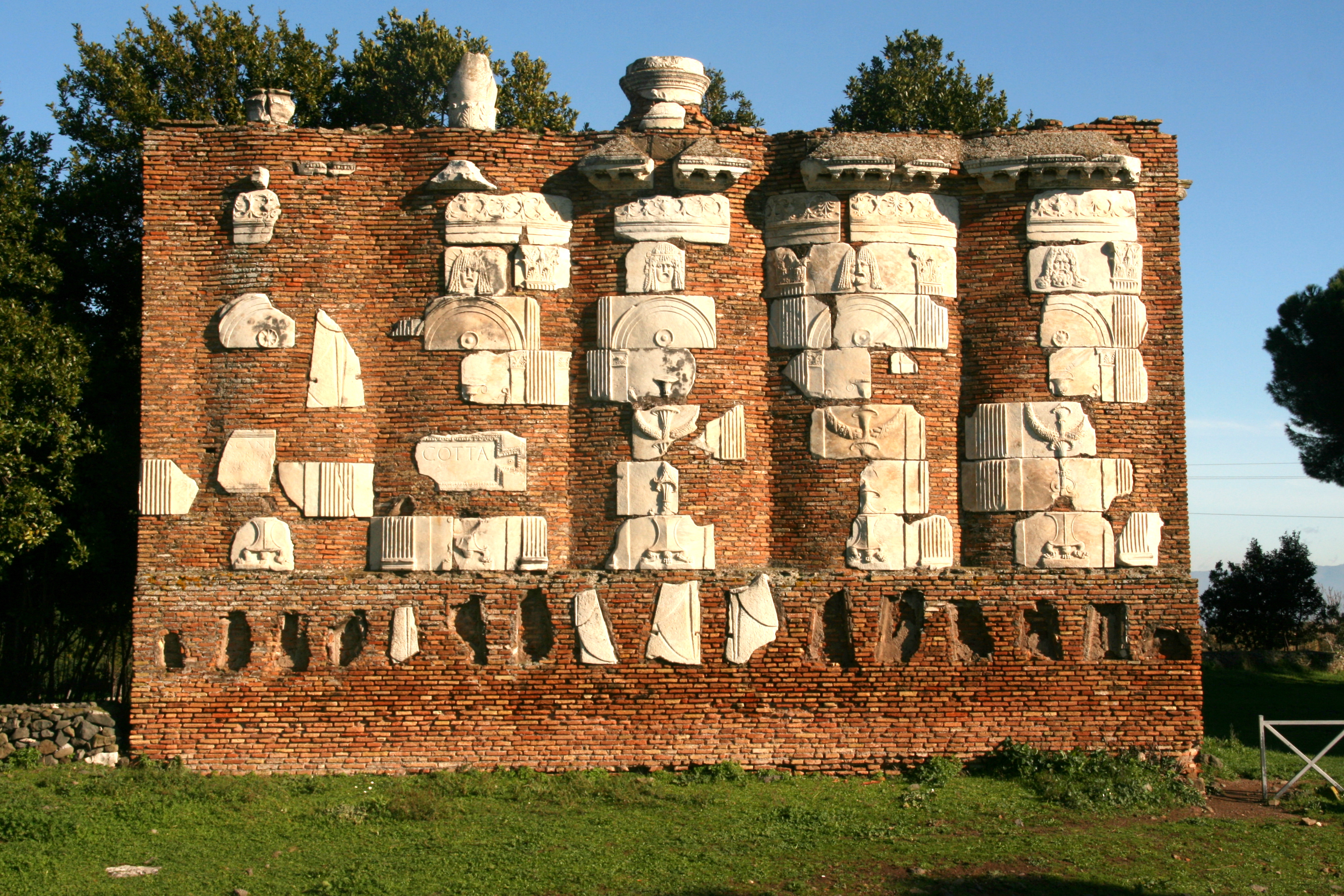 The wall of archaeological fragmants next to Casal Rotondo on the Appian Way near Rome